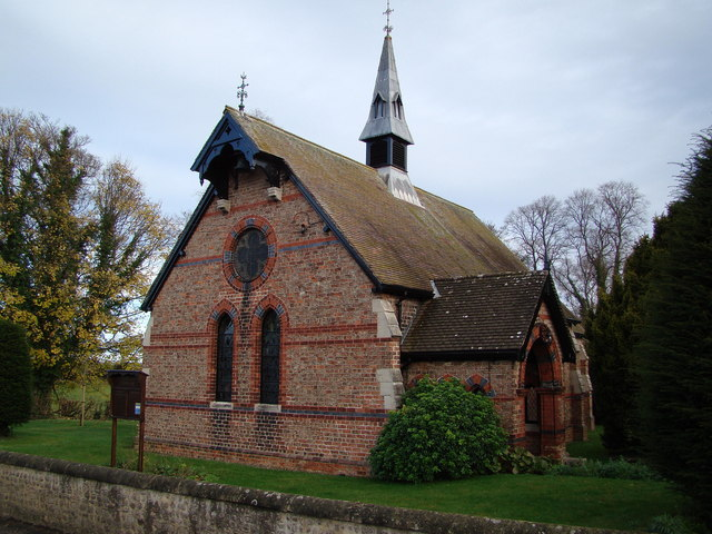 St Michael's at Littlethorpe Located on Pottery Lane in the village of Littlethorpe. Consecrated in 1878 it was built by the architect Robert Hargreave Brodrick.